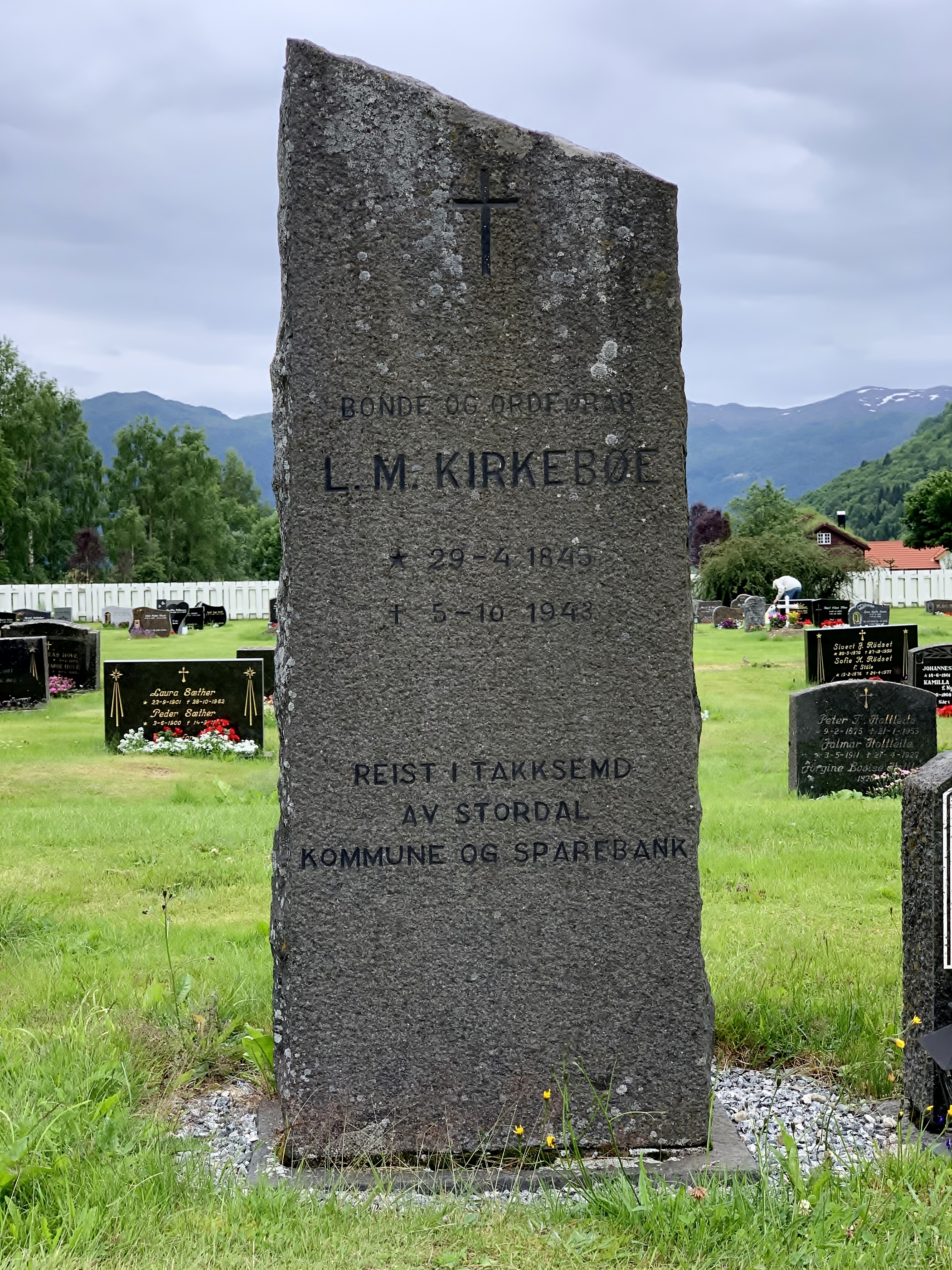 Memorial of LM Kirkebøe